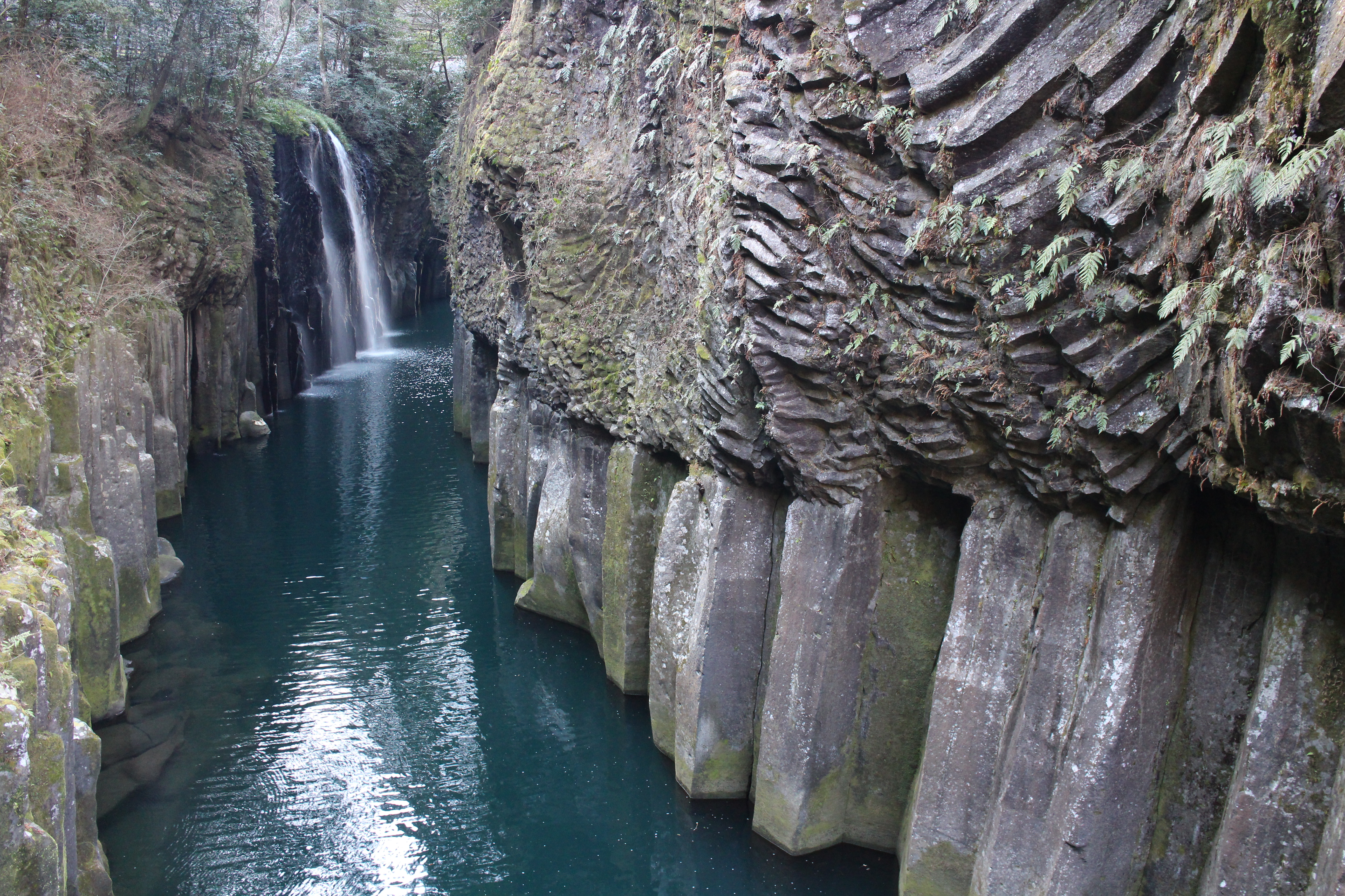 Takachihokyo